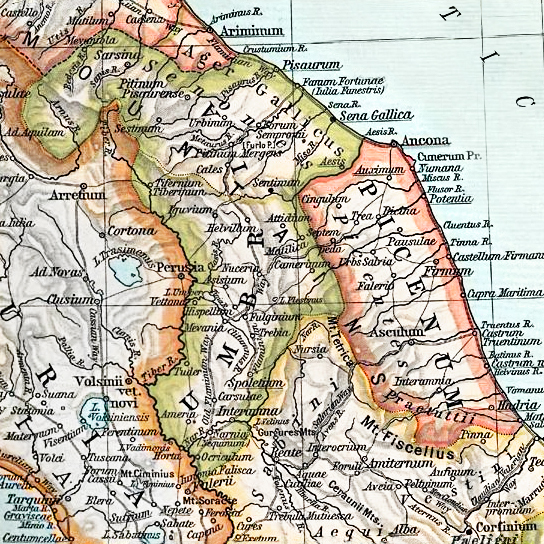 Map of Umbria and Picenum during the Roman period.